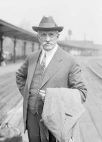 Portrait of Dr. James Breasted, Professor of Egyptology at the University of Chicago and founder of the Oriental Institute, standing outside on a train platform at a railroad station in Chicago, Illinois.